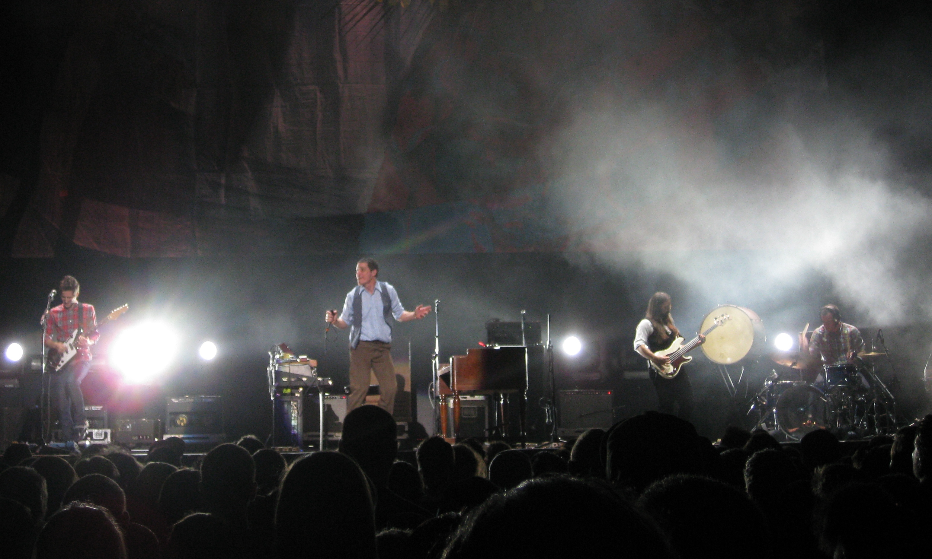 Mutemath performing at the Valley View Casino Center in San Diego, California on December 11, 2011 as part of radio station 91X's "Wrex the Halls" concert. Left to right: guitarist Todd Gummerman, singer/pianist Paul Meany, bassist Roy Mitchell-Cárdenas, and drummer Darren King.